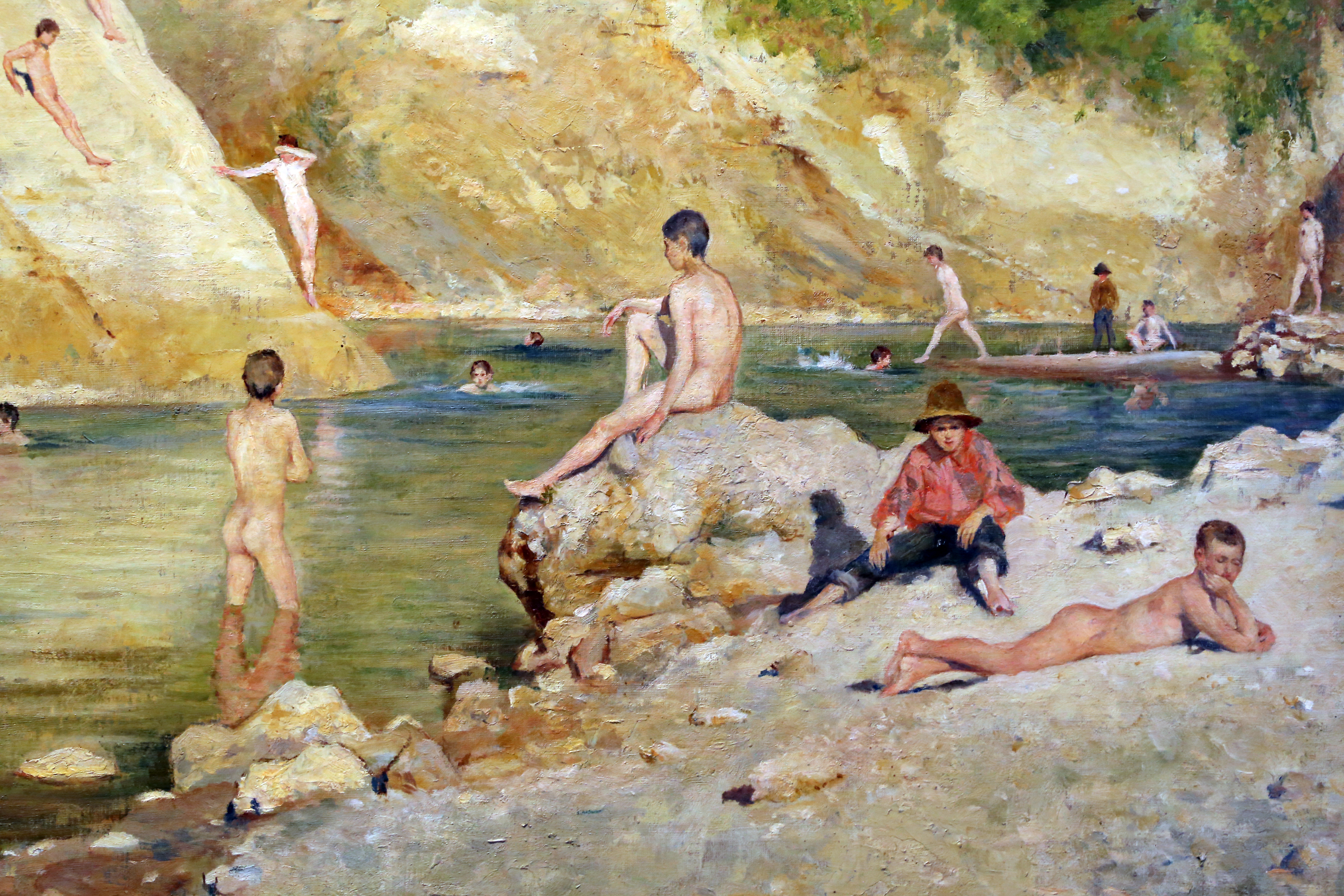 Museo San Pietro (Colle di Val d'Elsa)